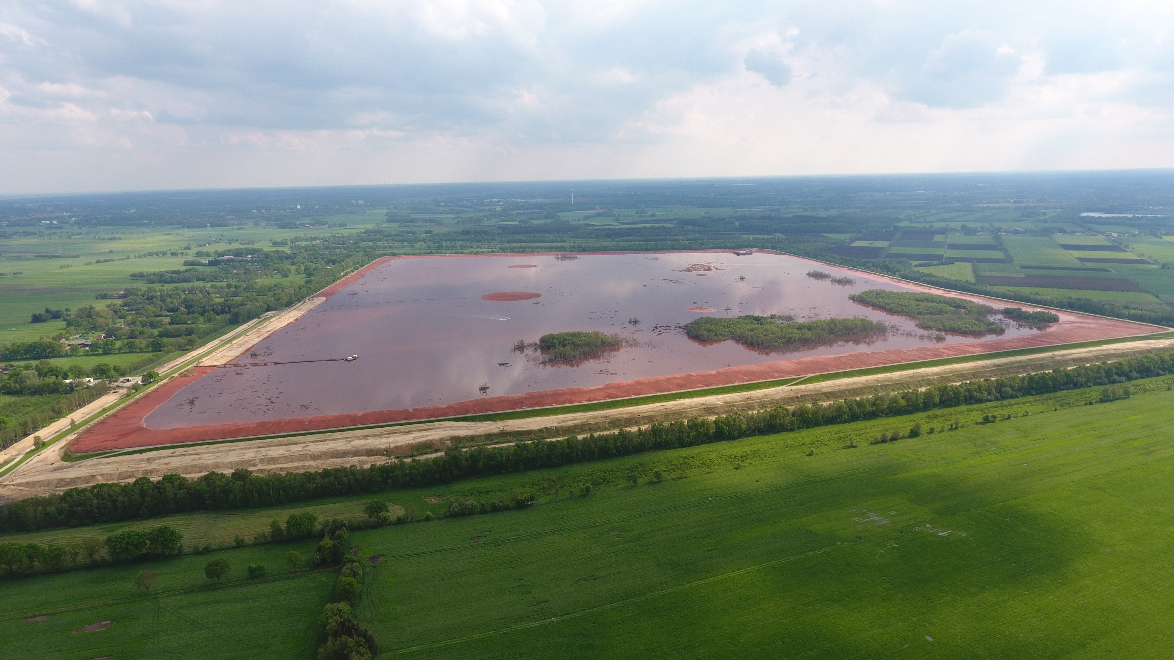 This picture shows an aerial view of the red mud disposal site near Stade in Germany.